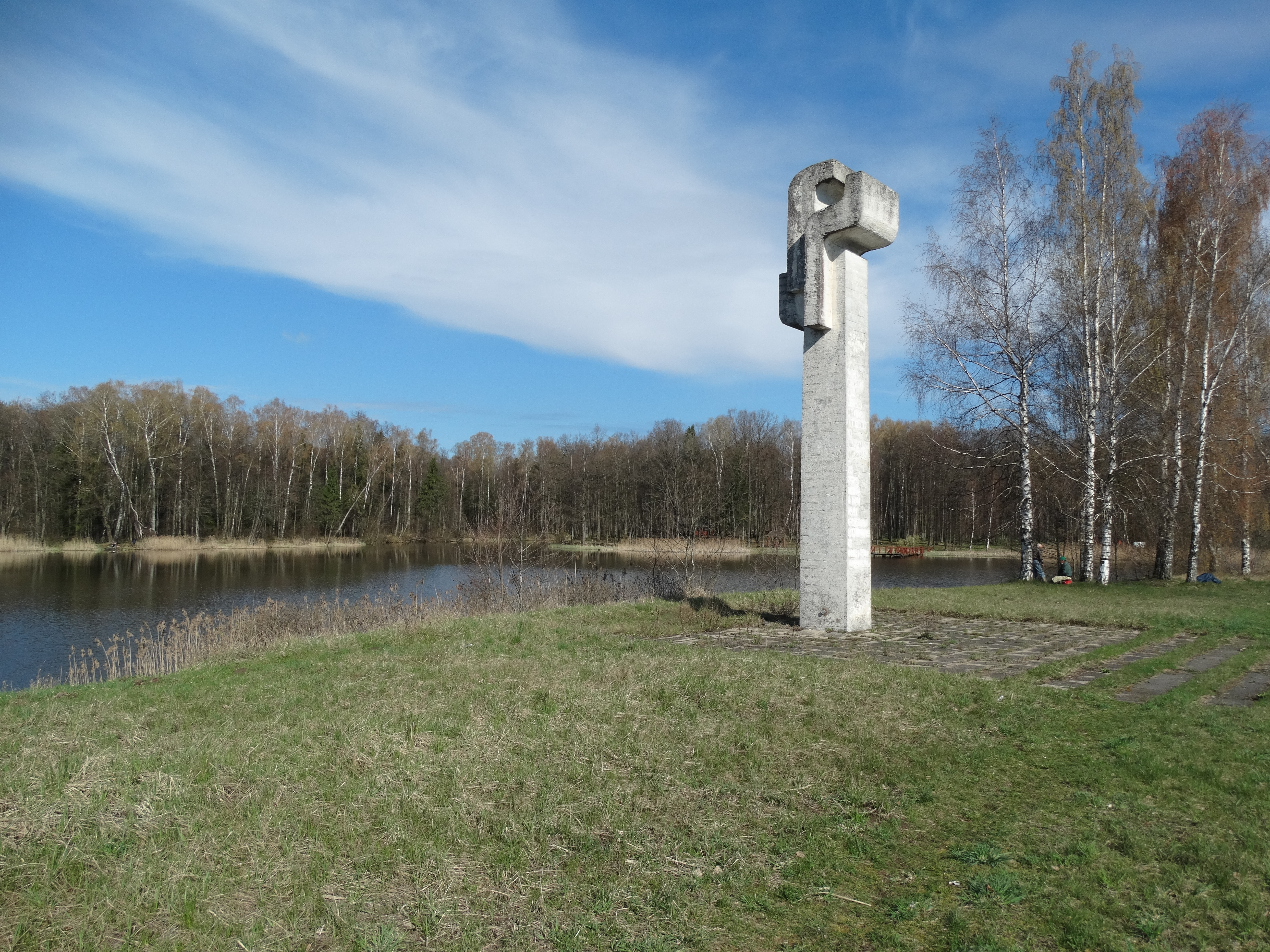 Obelisk in Ščebnica, by Kaišiadorys, Lithuania